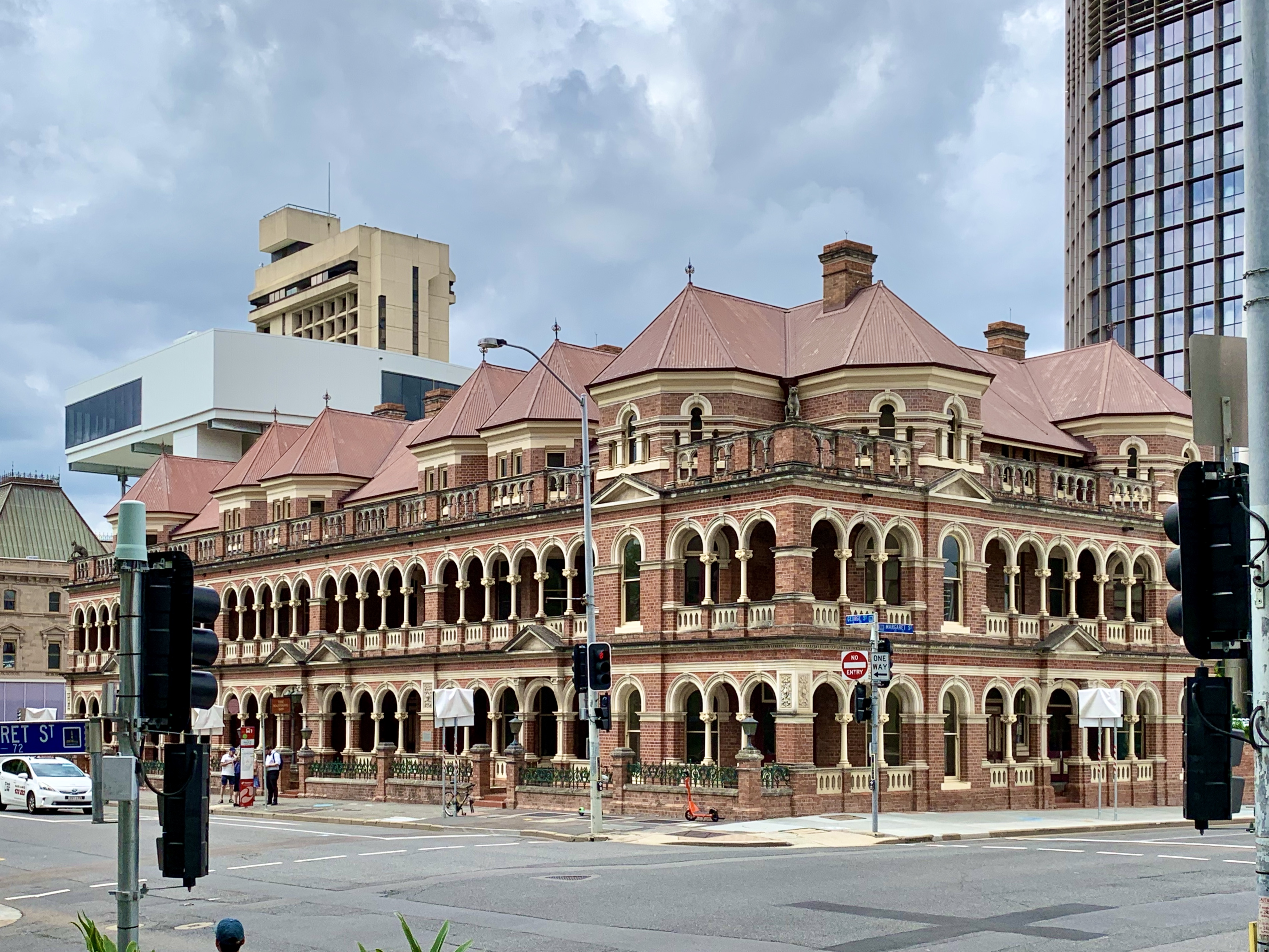 The Mansions, Brisbane, Jan 2020